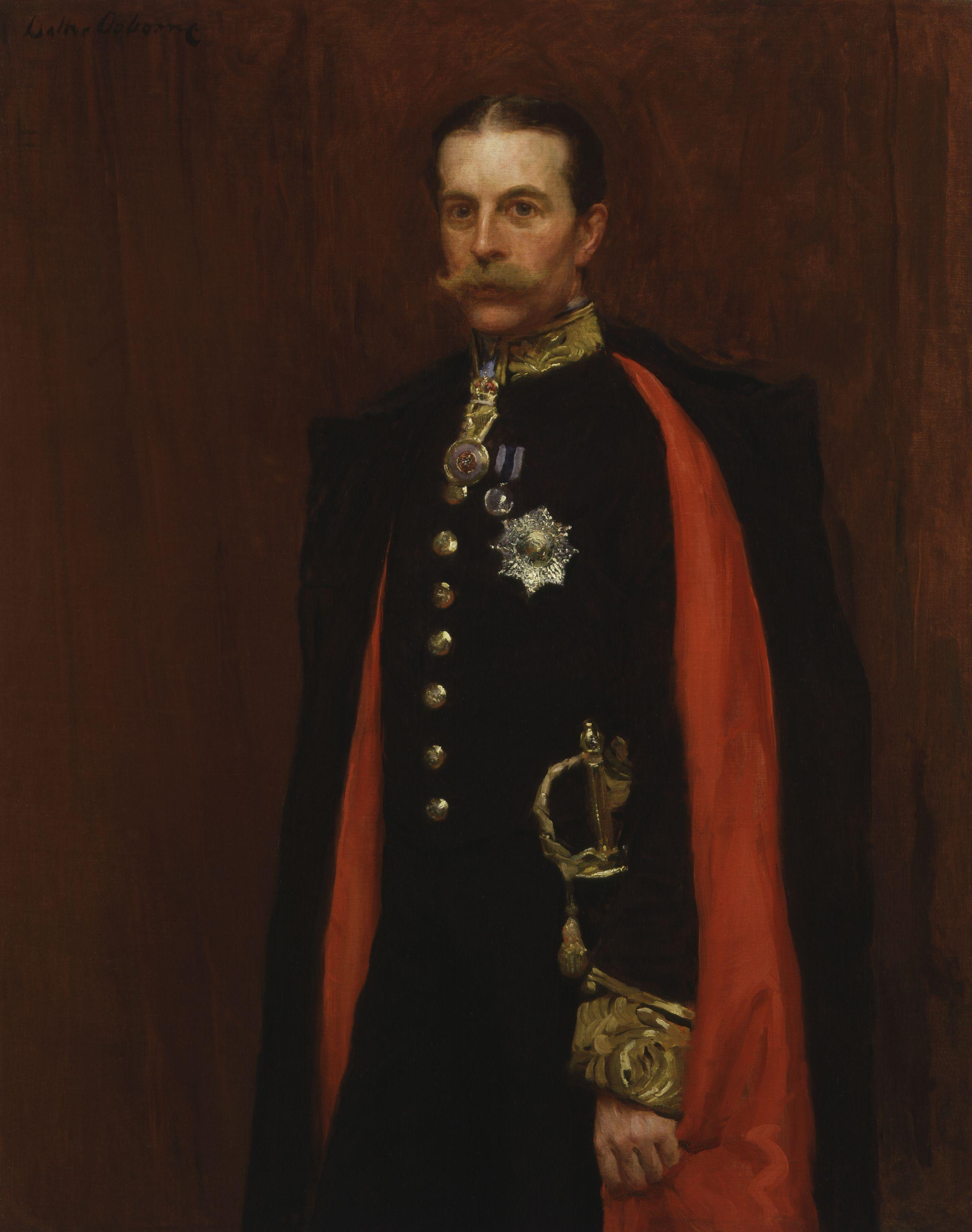 Robert Offley Ashburton Crewe-Milnes, 1st Marquess of Crewe, given to the National Portrait Gallery, London in 1953. All images in this batch have been confirmed as author died before 1939 according to the official death date listed by the NPG.